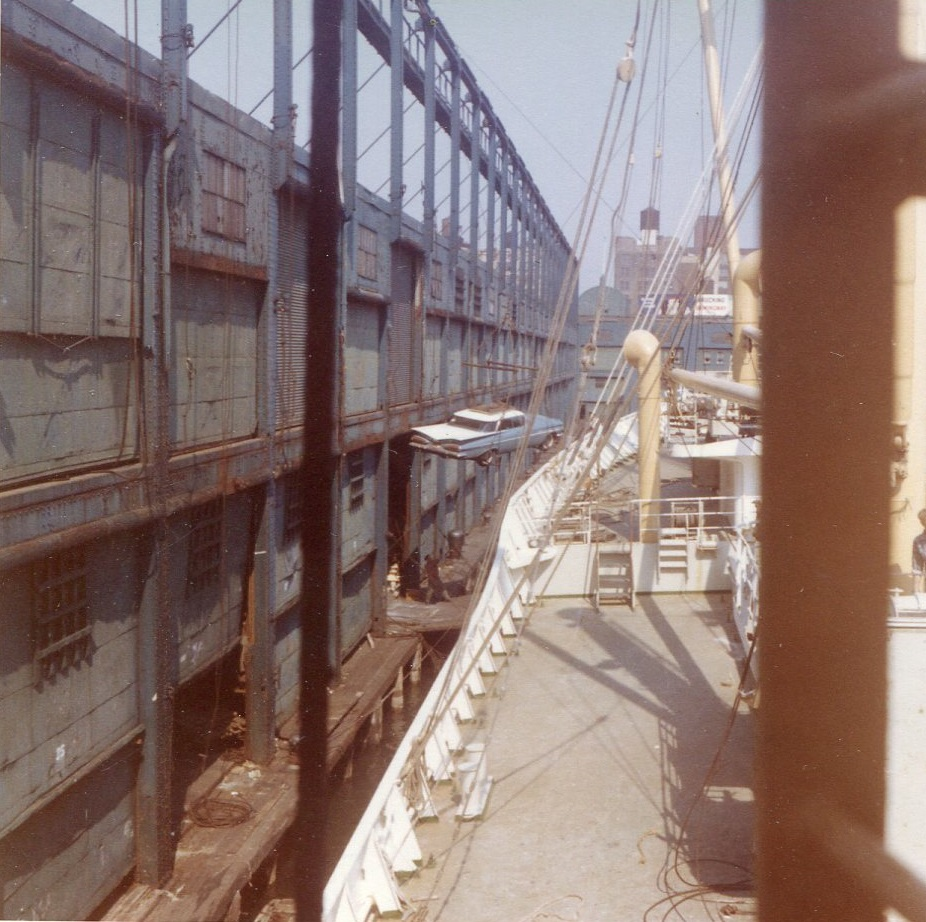 Birgit Ridderstedt's car being loaded onto the MS Skiensfjord Place: New York, New York